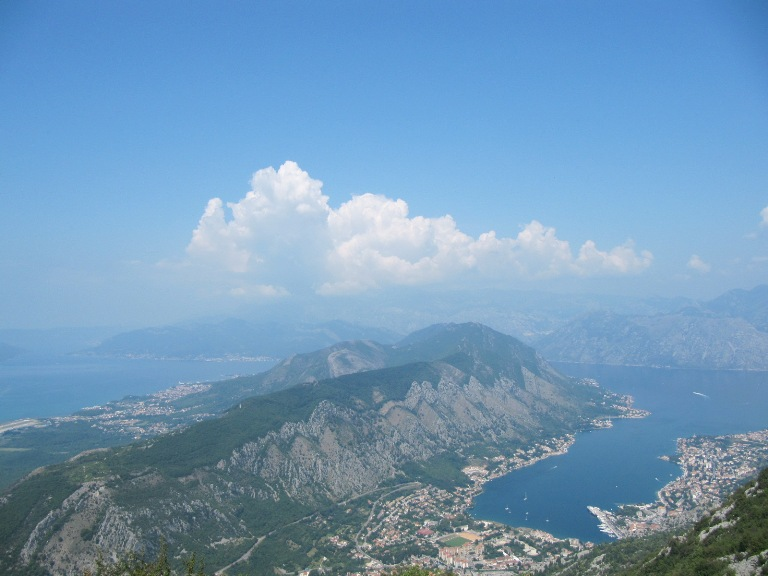 Bay of Kotor, Montenegro.